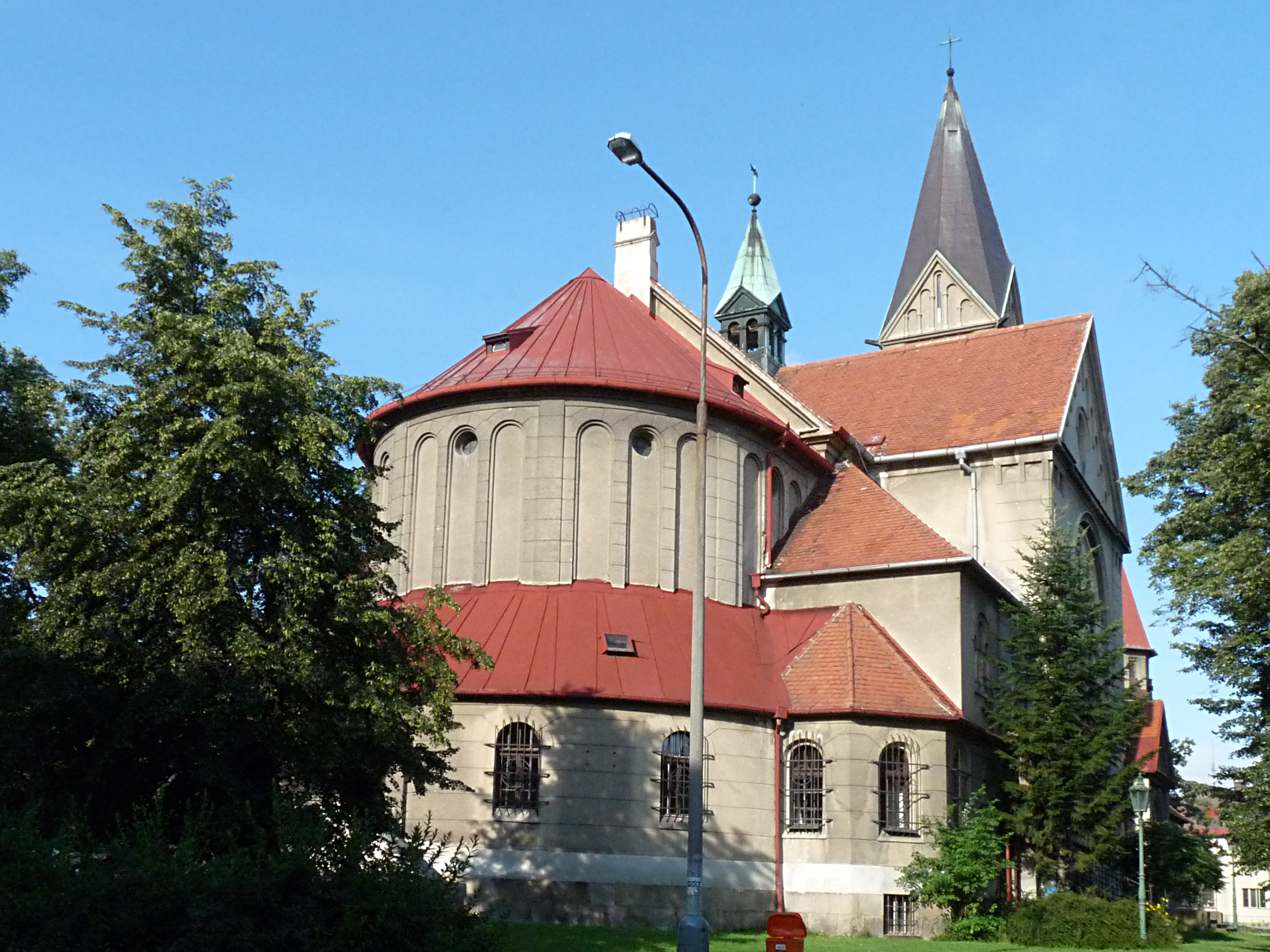 St John of Nepomuk church in České Budějovice, Czech Republic